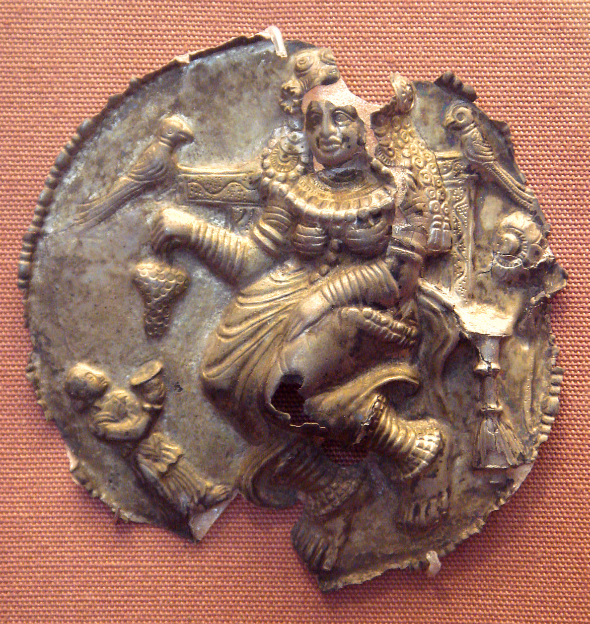 Hariti With Greek-Style Devotee wearing Chiton, Punjab 1-2Century. Dated to the 2nd century BCE in "The Crossroads of Asia".